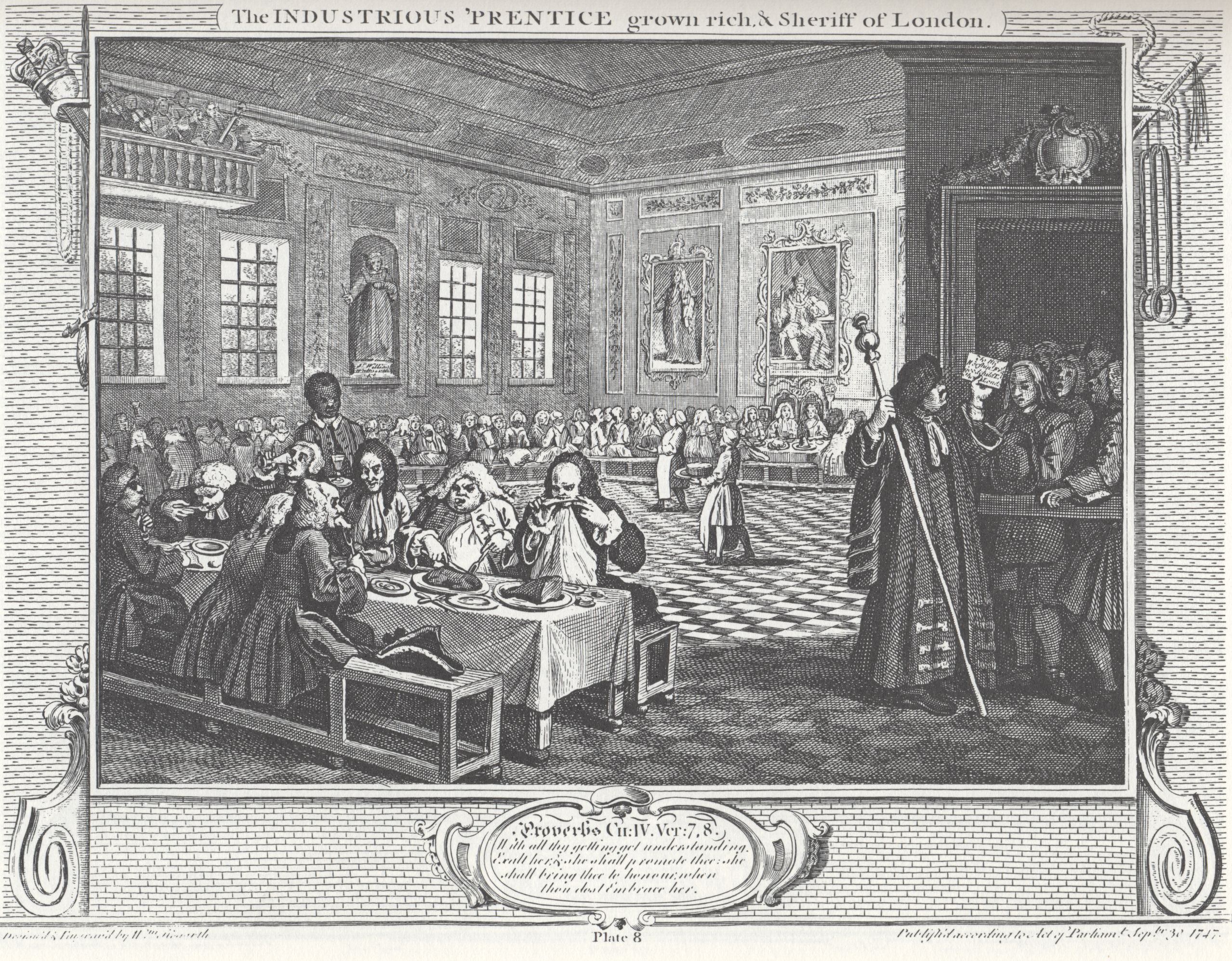 William Hogarth - Industry and Idleness, Plate 8; The Industrious 'Prentice grown right, & Sheriff of London